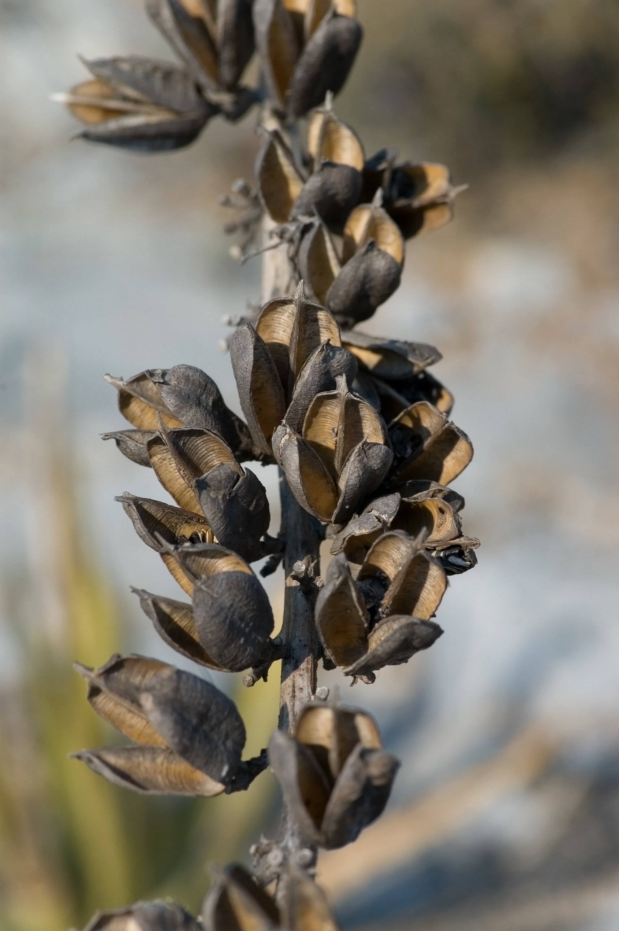 Lechuguilla (Agave lechuguilla) seed pods